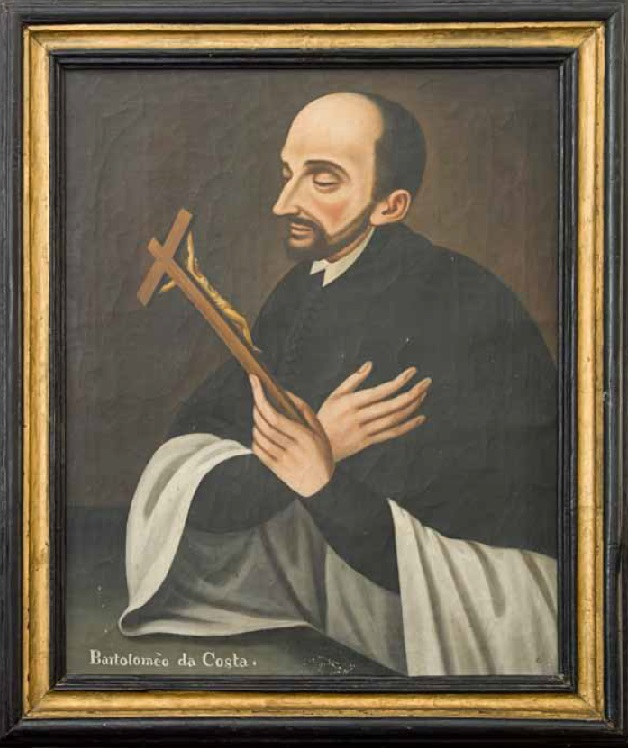 Quadro de Bartoçlomeu da Costa